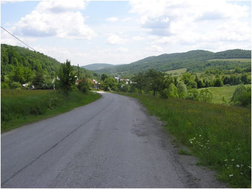 Description Celkový pohľad Date25 June 2006SourceOwn workAuthorAndrej BelovežčíkPermission (Reusing this file) ano Celkový pohľad